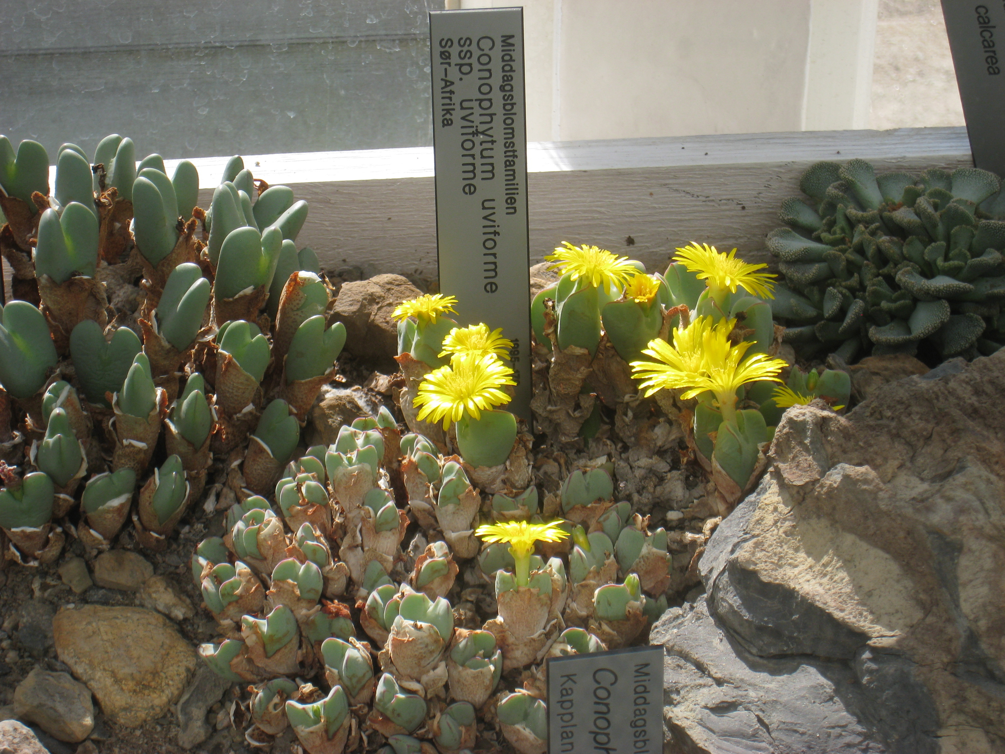 Conophytum uviforme, Oslo Botanical Garden, Oslo, Norway.